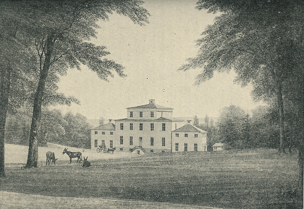 Sophienholm. H.G.F. Holm. (A former country house and exhibition venue located north on the shore of Lake Bagsværd in Lyngby-Taarbæk Municipality in the northern outskirts of Copenhagen, Denmark)